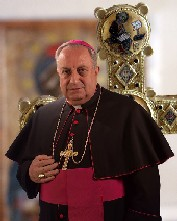 Mons. Salvatore Nunnari, Archbishop of Cosenza-Bisignano, Italy